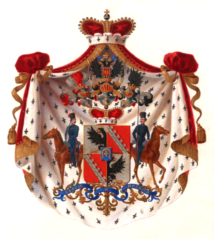 Serene Highness Chernyshev_COA